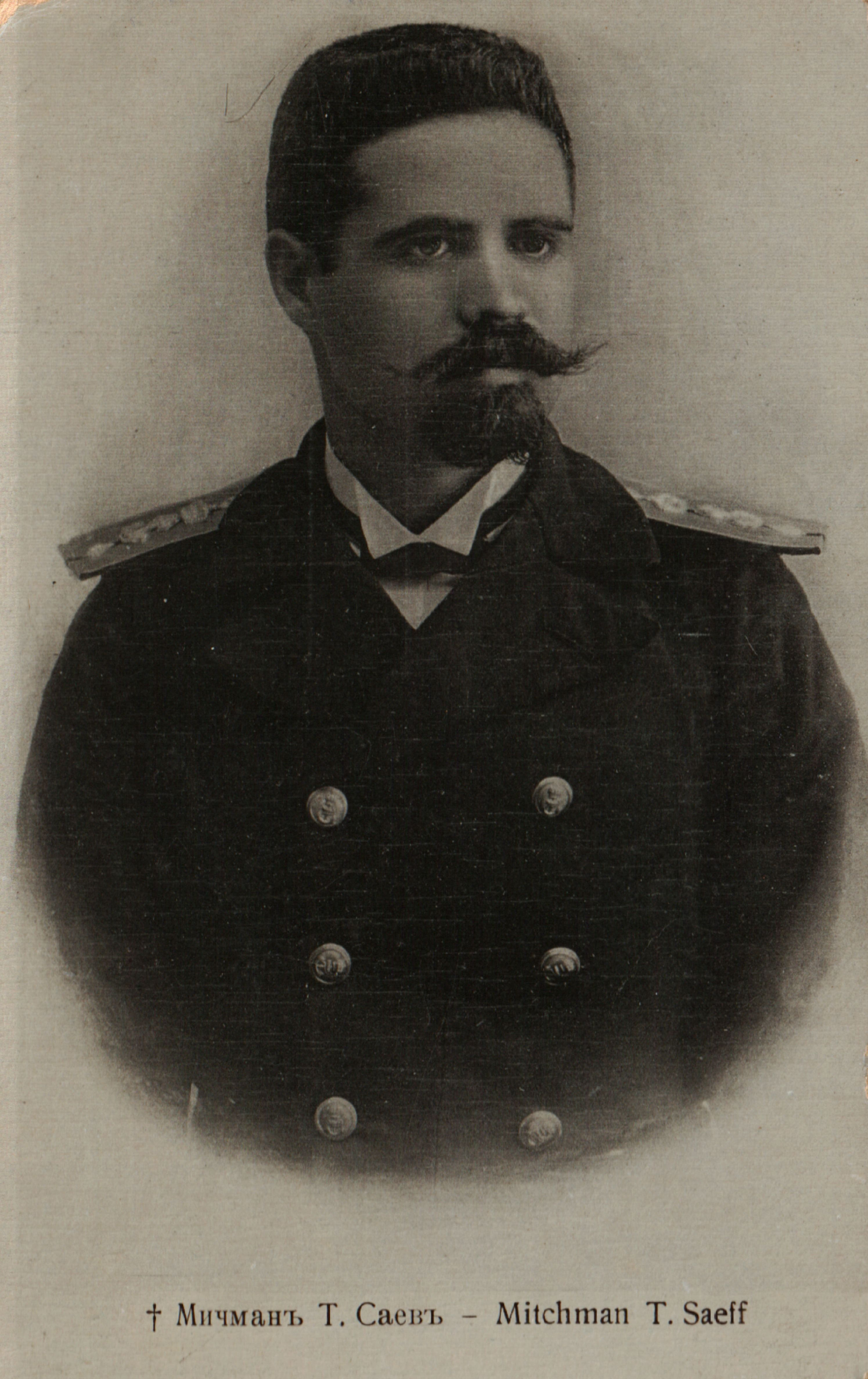 Todor Saev